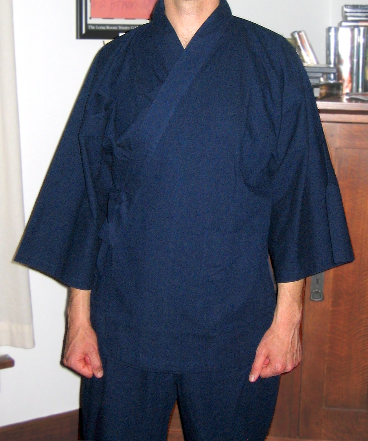 These are the samue, the everyday work outfit of a Japanese Buddhist monk, I got for the HNIR seminar in Guelph back in 2006.